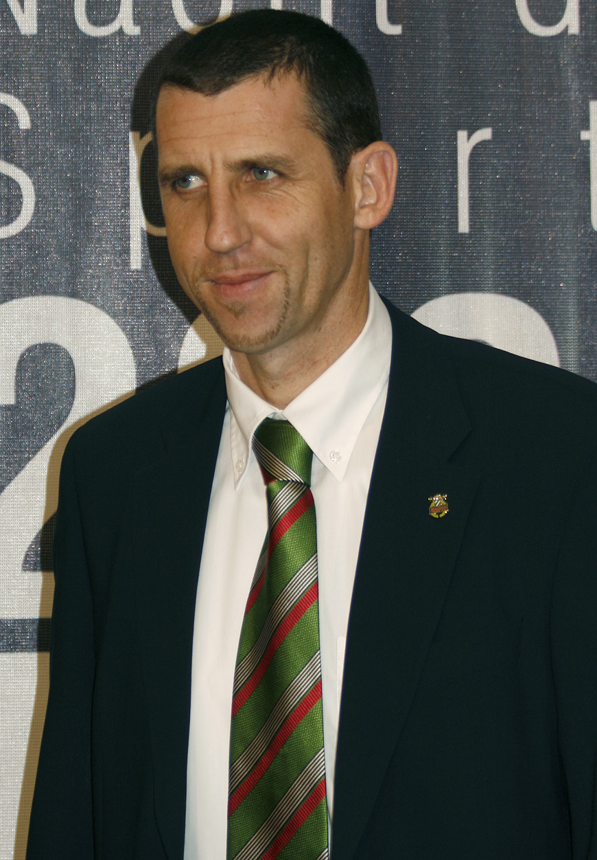 Austrian football player Alfred Hörtnagl at the Galanacht des Sports (Gala-Night of Sports), where the Austrian Sportspersonalities of the Year 2008 were honoured.